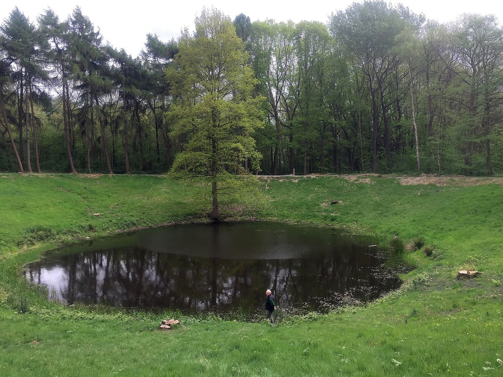 Ypres, Belgium: Hill 60 battlefield memorial park with crater of the British deep mine fired at the Caterpillar on 7 June 1917